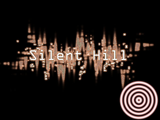 Author:Intr0vertanesthetizt 18:54, 22 April 2007 (UTC) (User:Neur0X on Wikipedia) A title image free of any restrictive policies for any use in Silent Hill material, does not include any copyrighted logos or privately owned business derived properties.